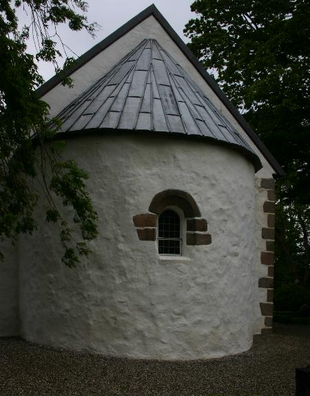 Apsis on a Danish church (Tved Kirke).